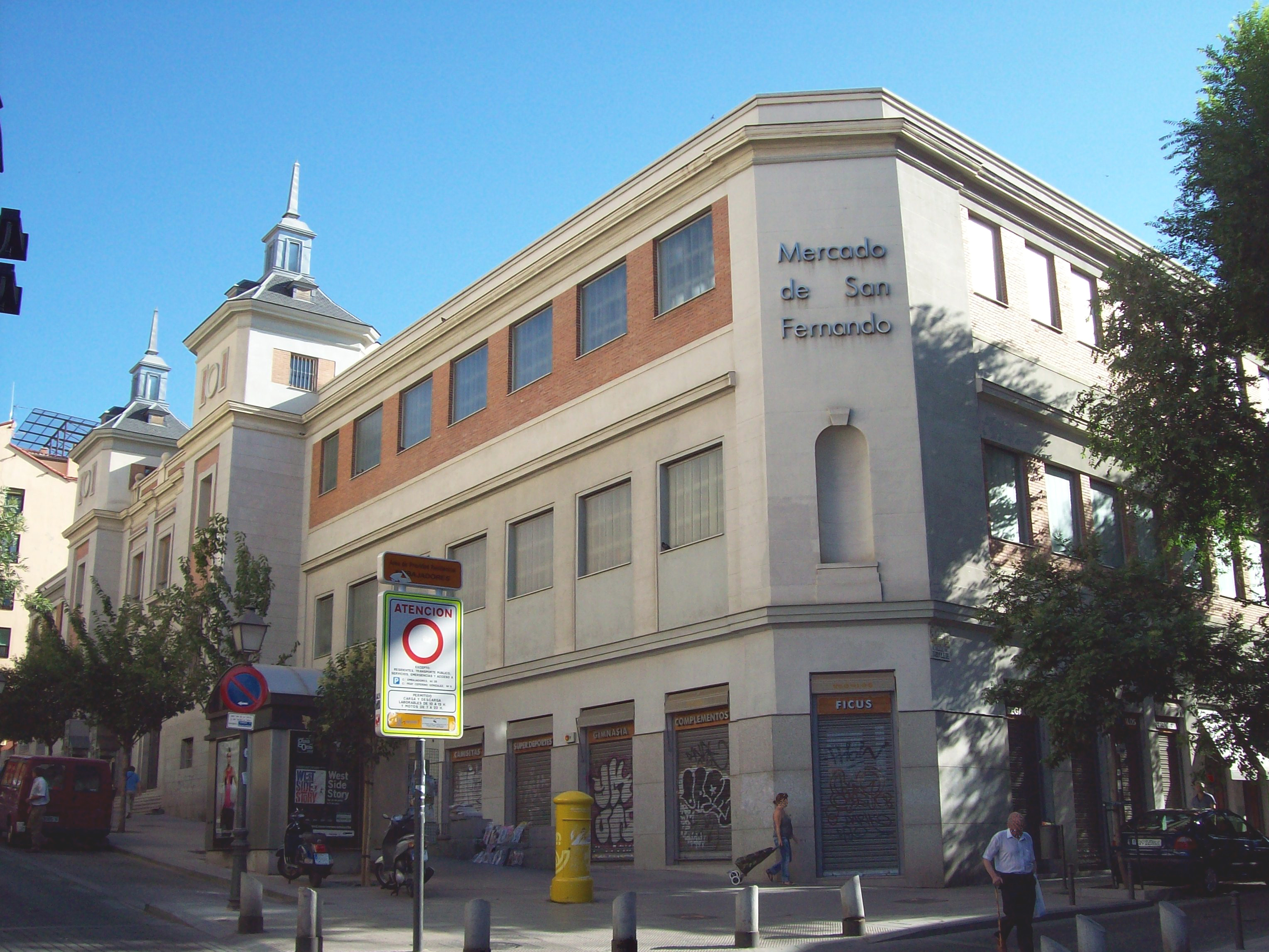 Façade of Mercado de San Fernando (a market) in Madrid (Spain), at 41 Calle de Embajadores (street) in Centro district. Building was projected in 1939 by Casto Fernández-Shaw Iturralde and built from 1942 to 1944.